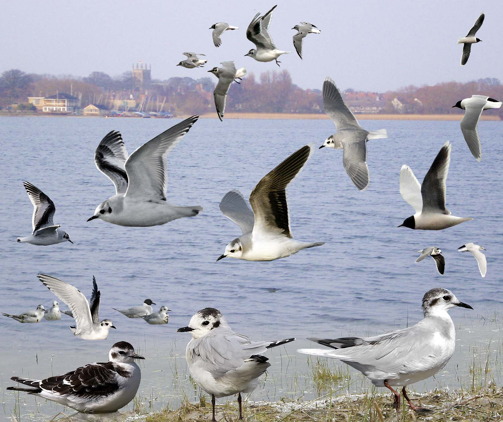 Little Gull from the Crossley ID Guide Britain and Ireland